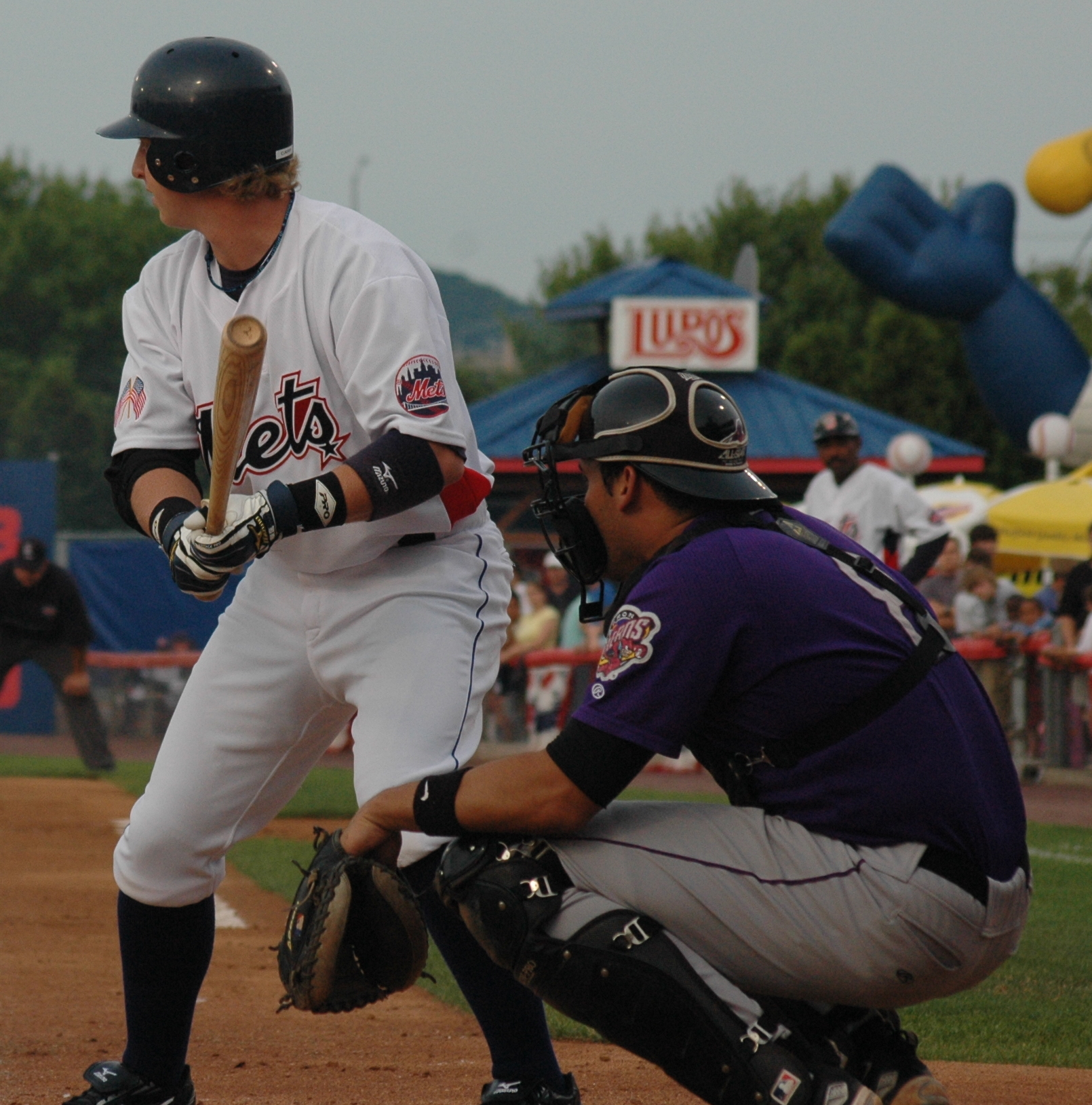 Mike Carp (left) of the Binghamton Mets bats and Damaso Espino (right) of the Akron Aeros catches during a game in Binghamton in 2008.